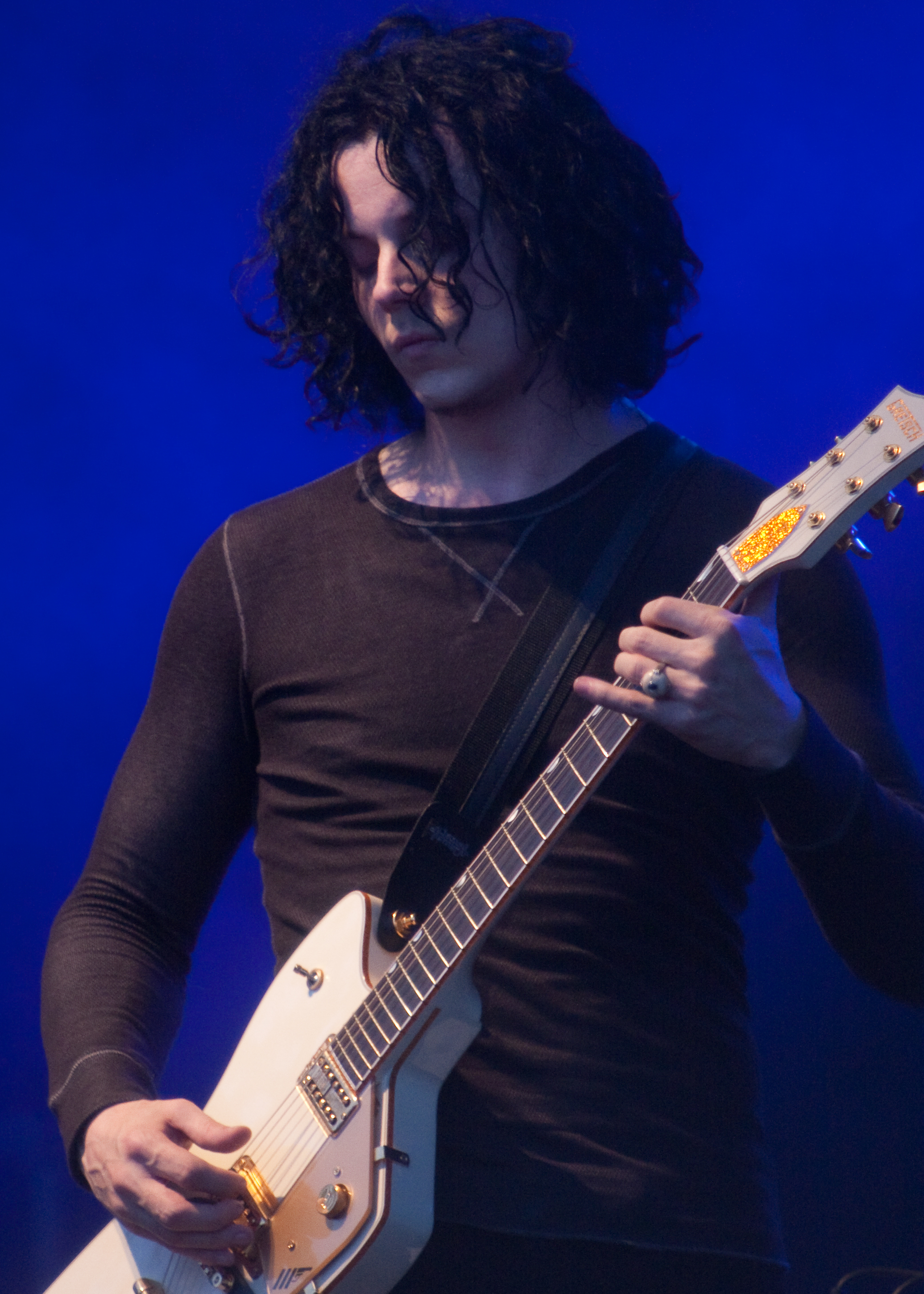 Cicso Ottawa Bluesfest 2009 Sunday July 19 2009 Rogers Stage Band members Alison Mosshart; lead vocals, guitar, percussion Jack White; drums, vocals, guitar Dean Fertita; guitar, organ, piano, synthesizer, bass, backing vocals Jack Lawrence; bass, guitar, drums, backing vocals